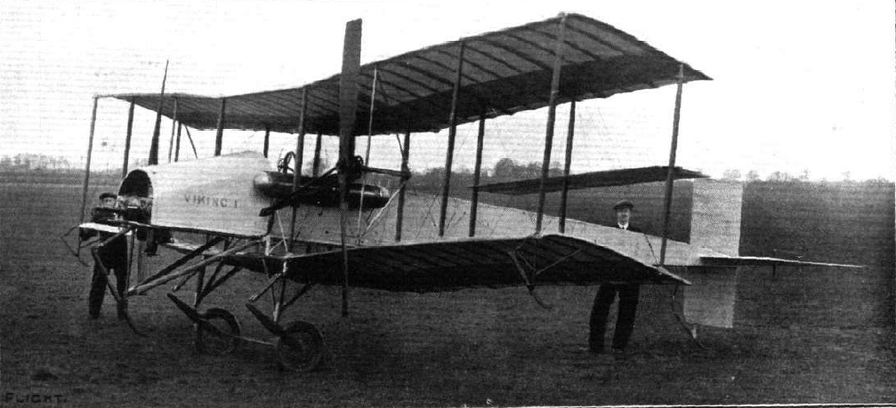 Threequarter view of ASL Viking biplane. 1912